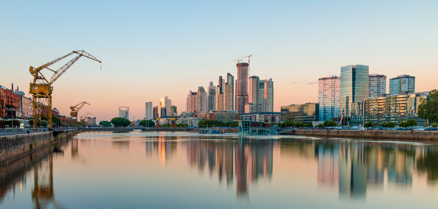 Puerto Madero is the newest neighborhood of Buenos Aires. It was founded in 1989 along the former port of the city, and largely developed since the late 1990s.